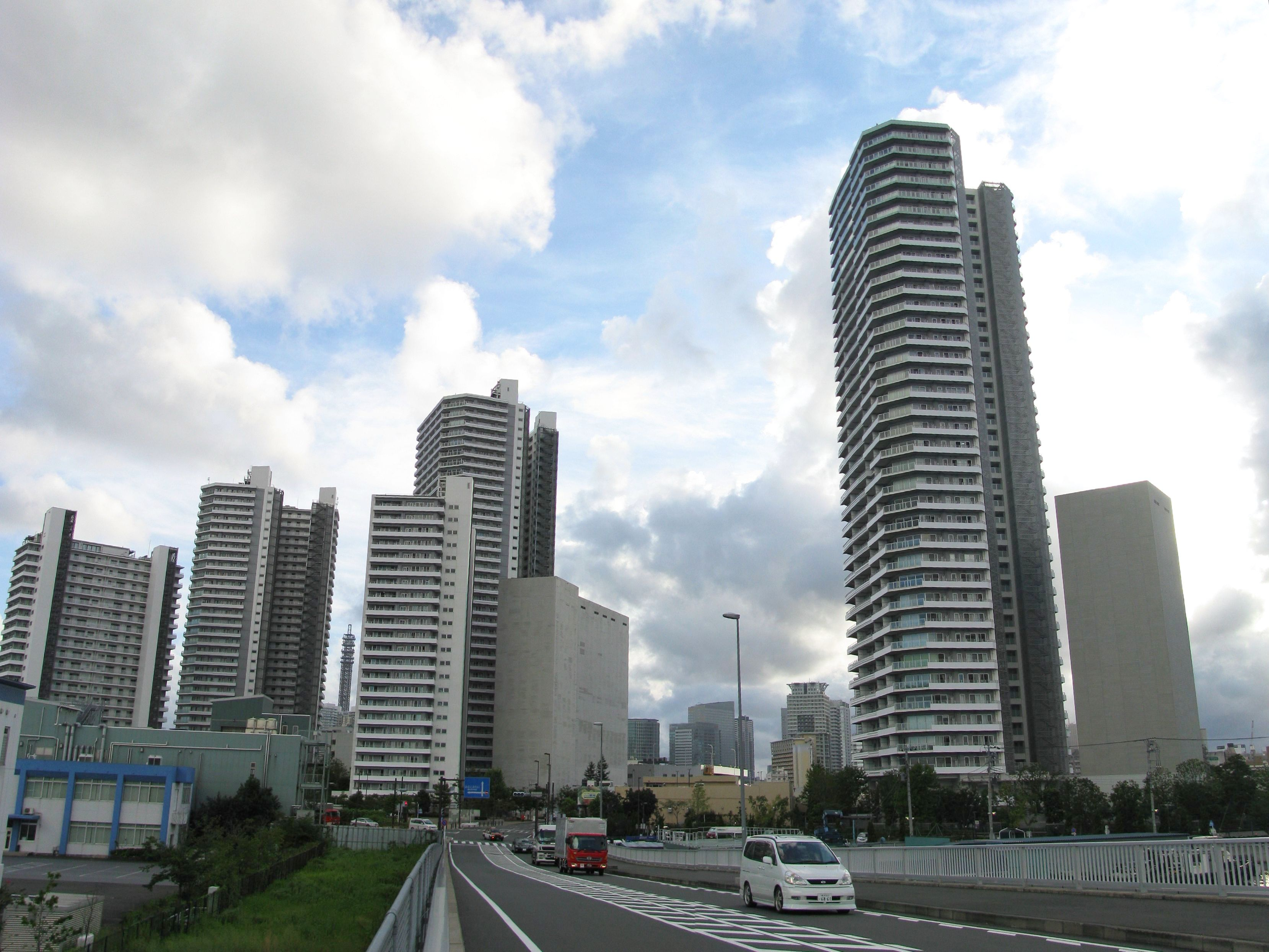 View of Hasimotochō in Kanagawa-ku, Yokohama, Kanagawa Prefecture, Japan.